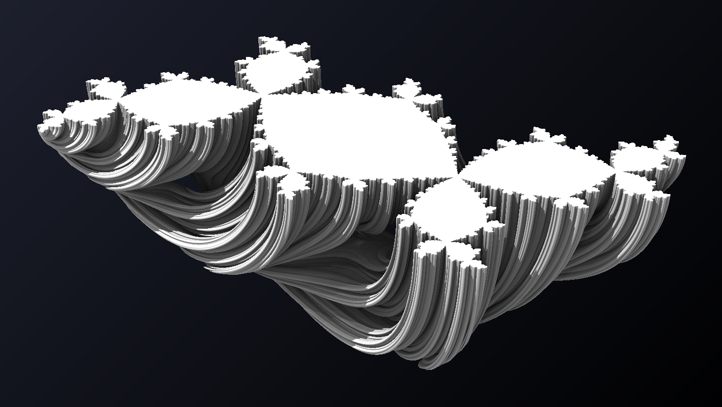 Quaternion julia set with parameters c = −0,123 + 0.745i and with a cross-section in the XY plane. The "Douady Rabbit" julia set is visible in the cross section. Rendered with Mandelbulber 0.80.